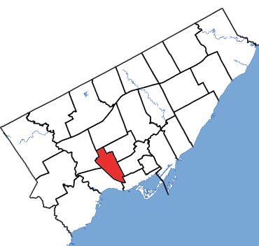 Davenport in relation to the other Toronto ridings (2015 boundaries)